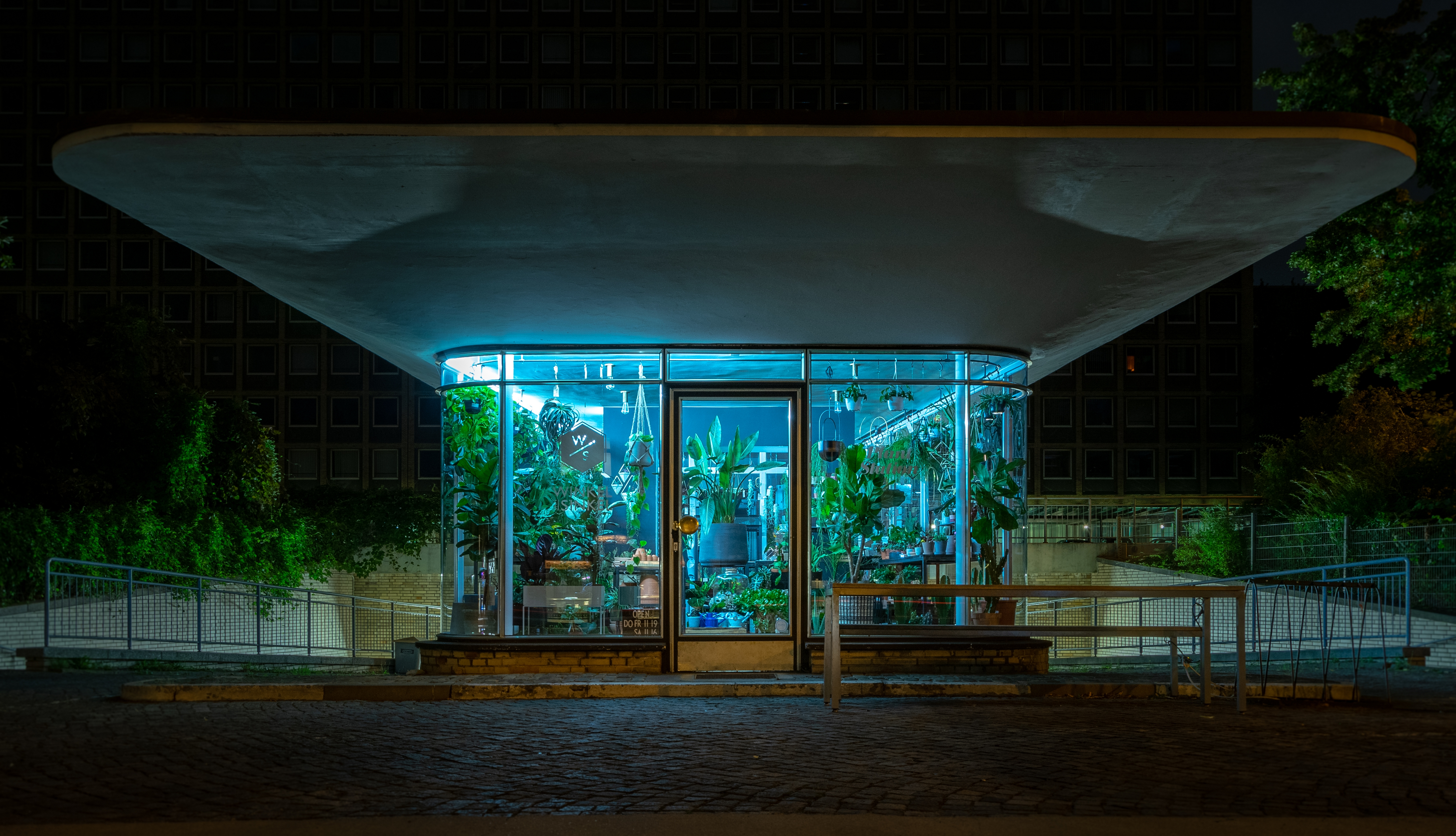 Old gas station in Hamburg that is now being used as a plant shop.